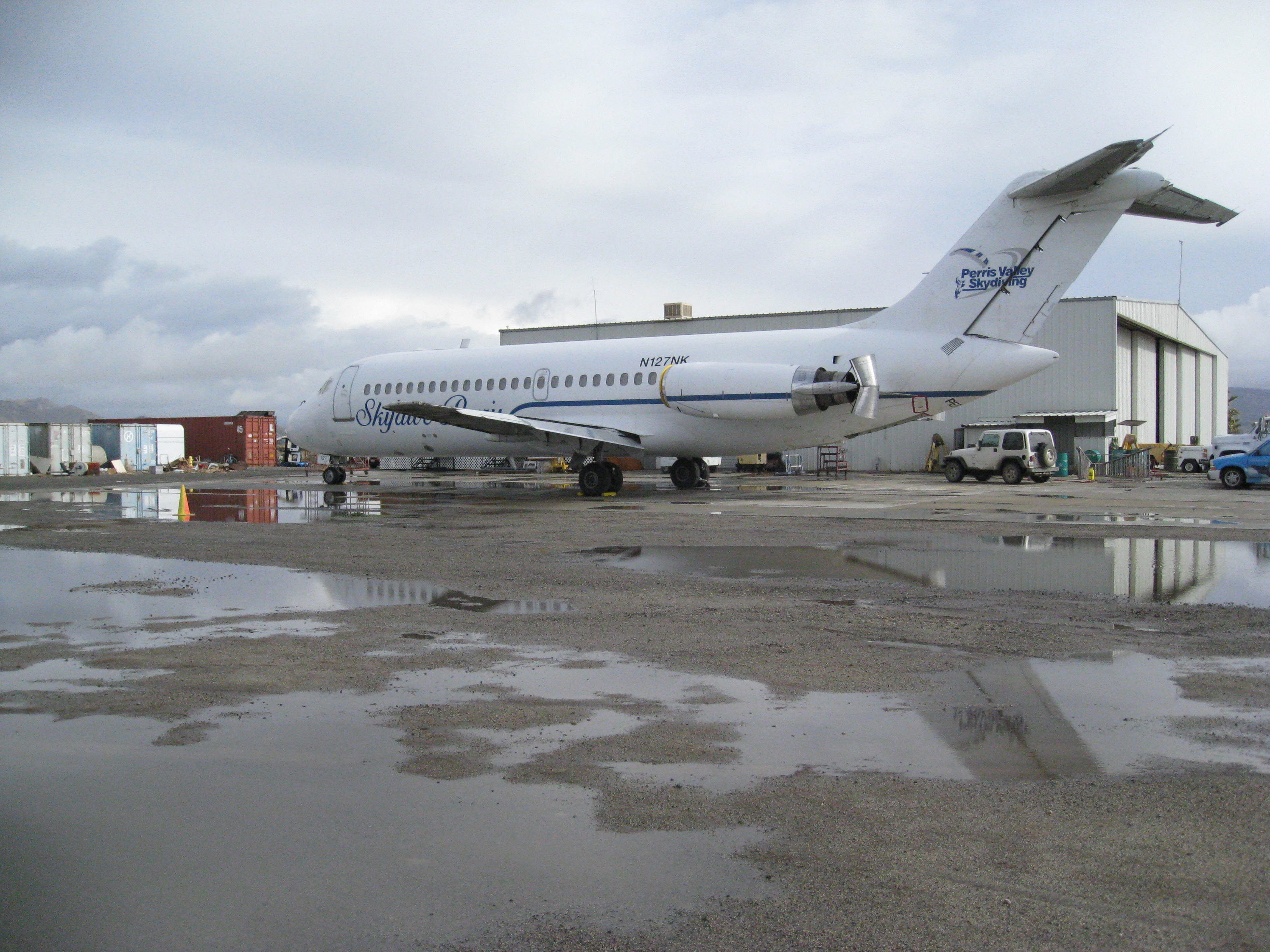 Perris Valley Skydiving DC-9-21